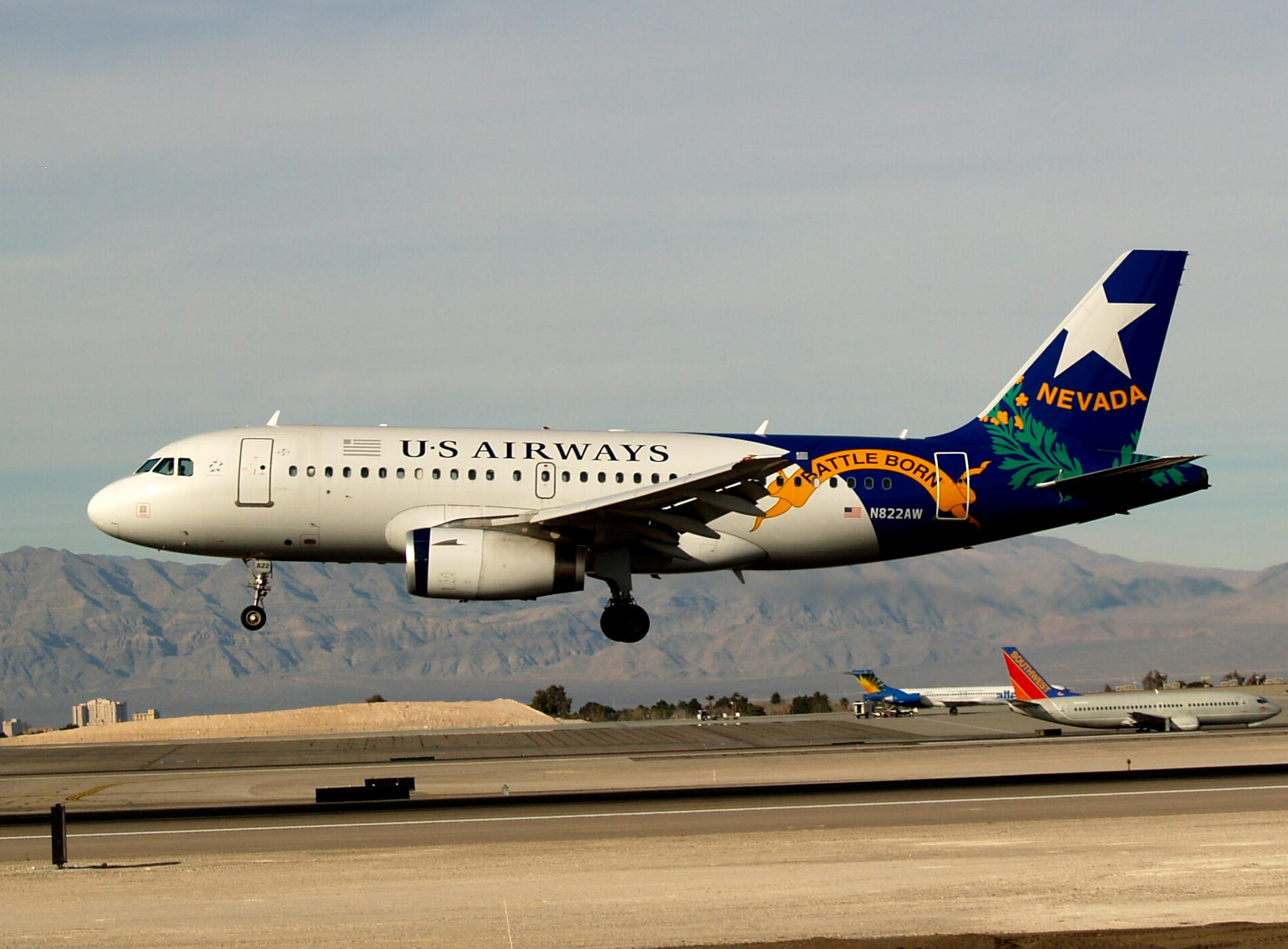 US Airways Nevada Airbus A319-132 N822AW